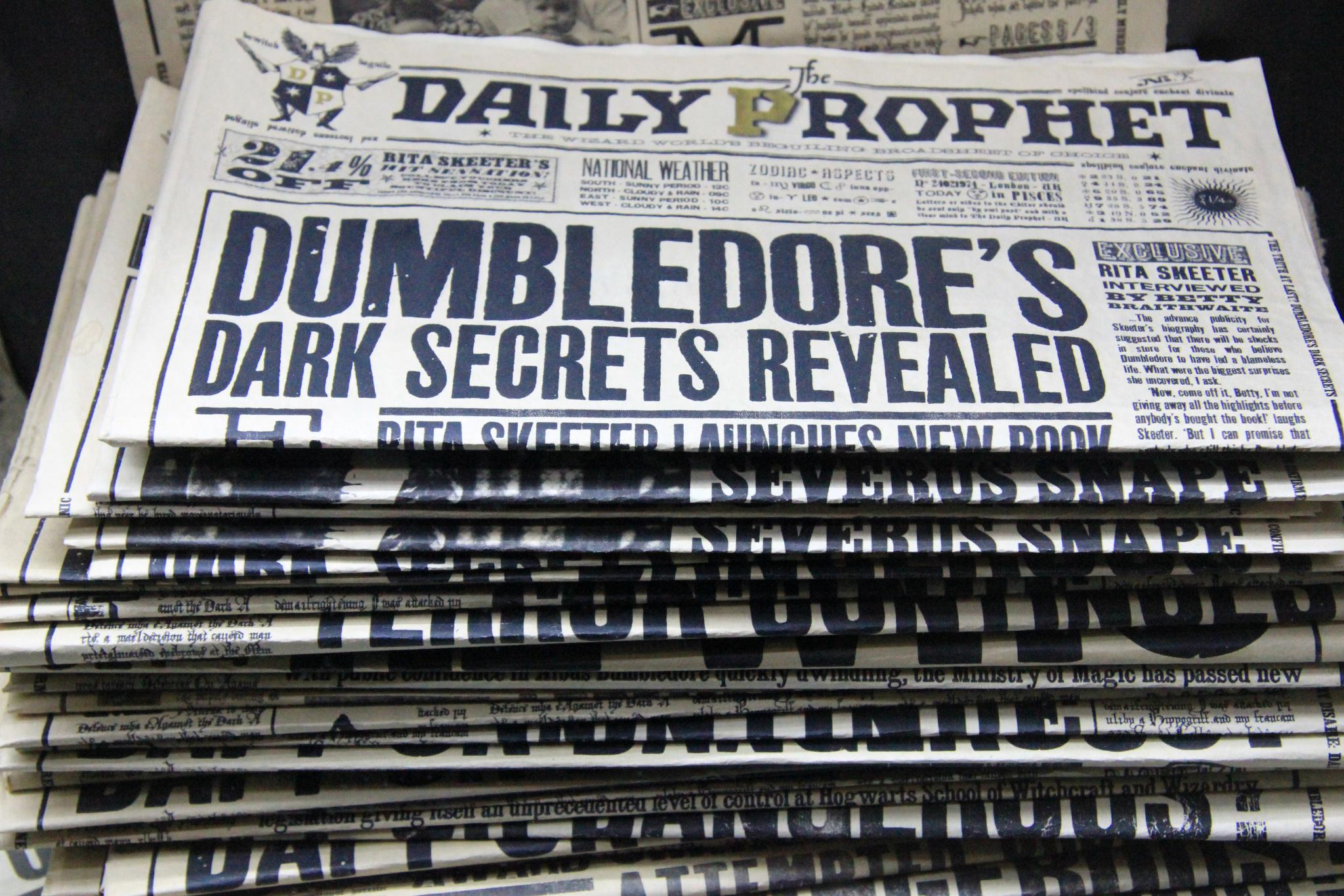 Warner Bros. Studio Tour London: The Making of Harry Potter.